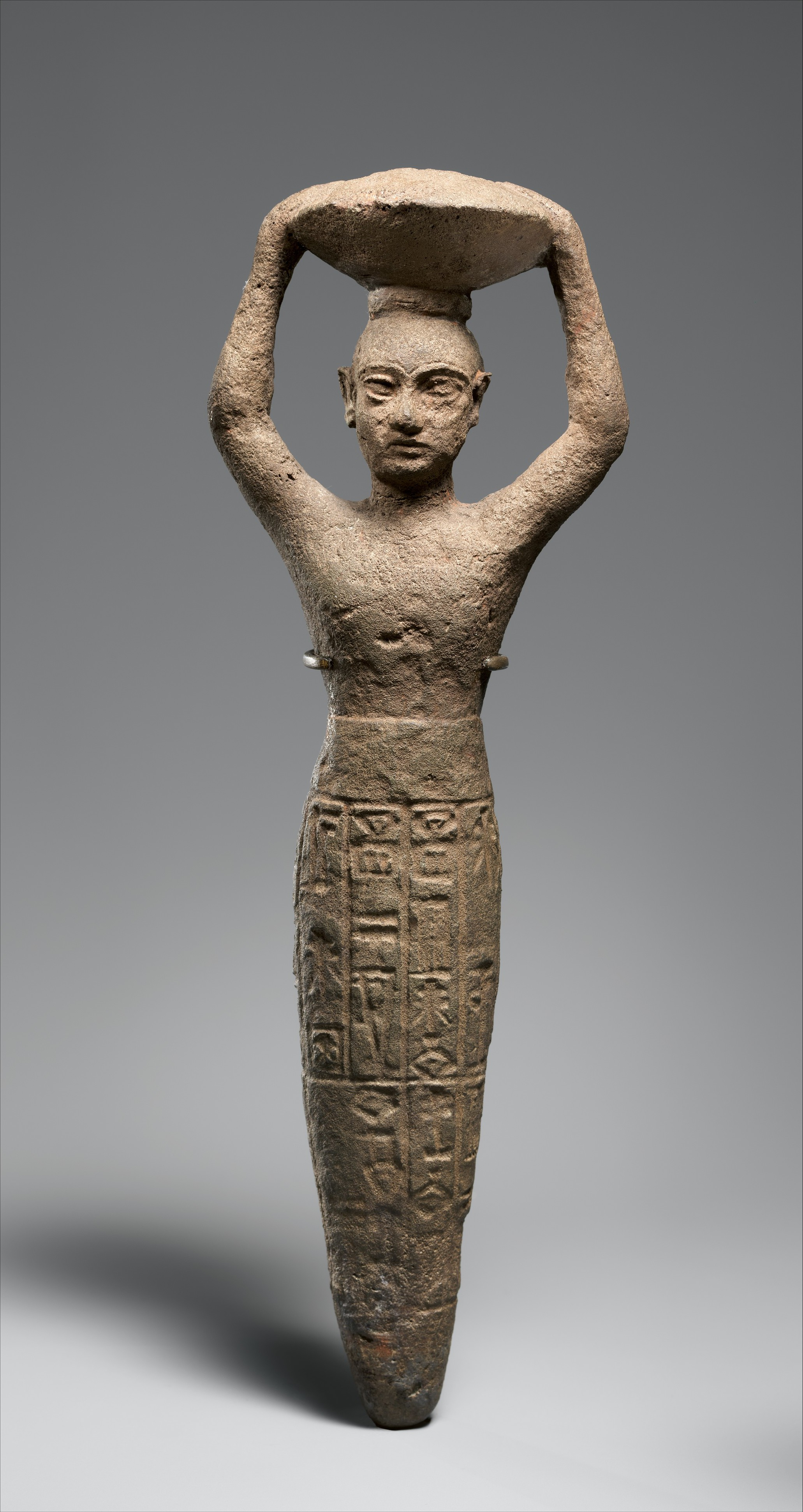 Neo-Sumerian; Foundation figure; Metalwork-Sculpture-Inscribed